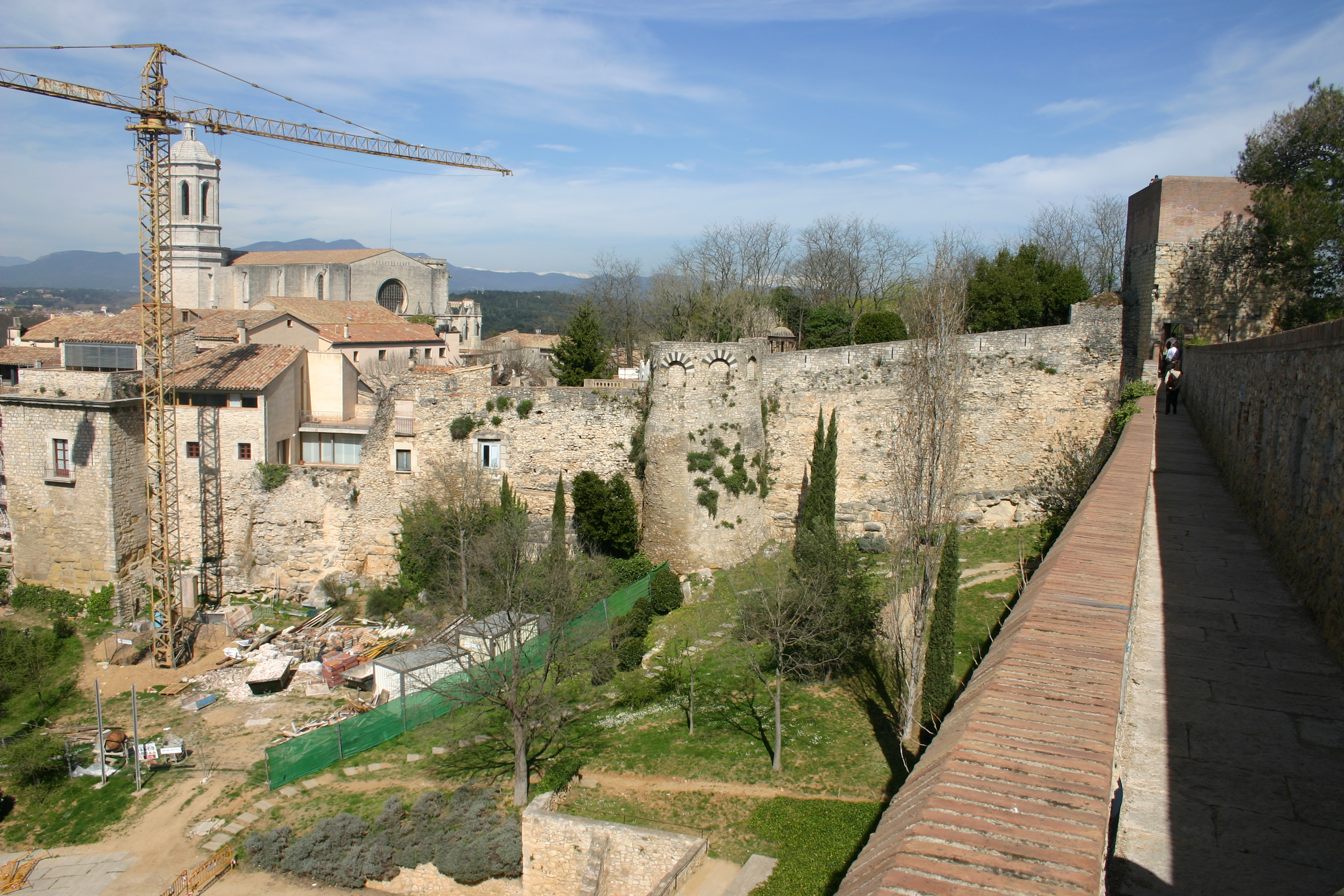 Girona's Wall